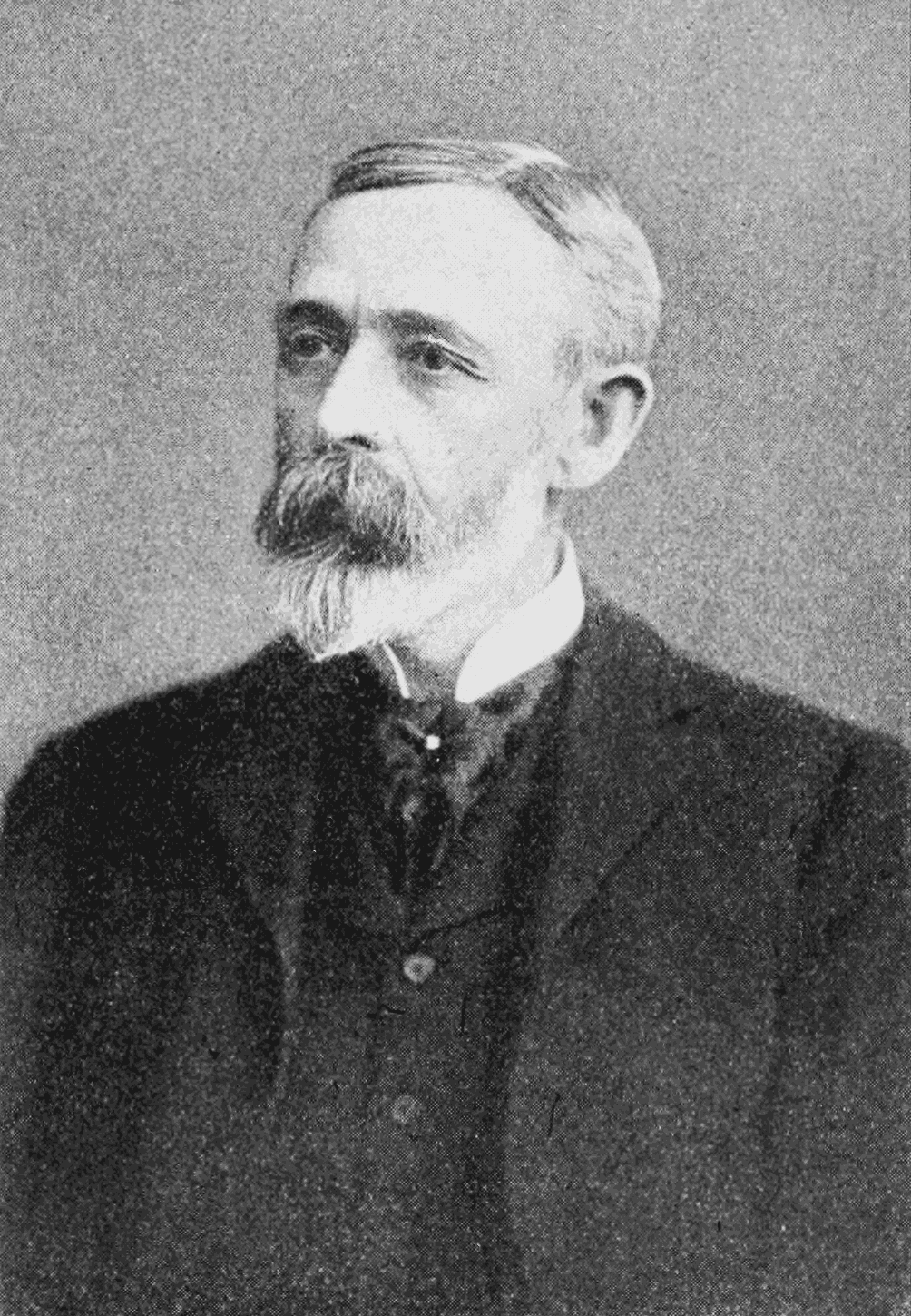 Edward L Mark